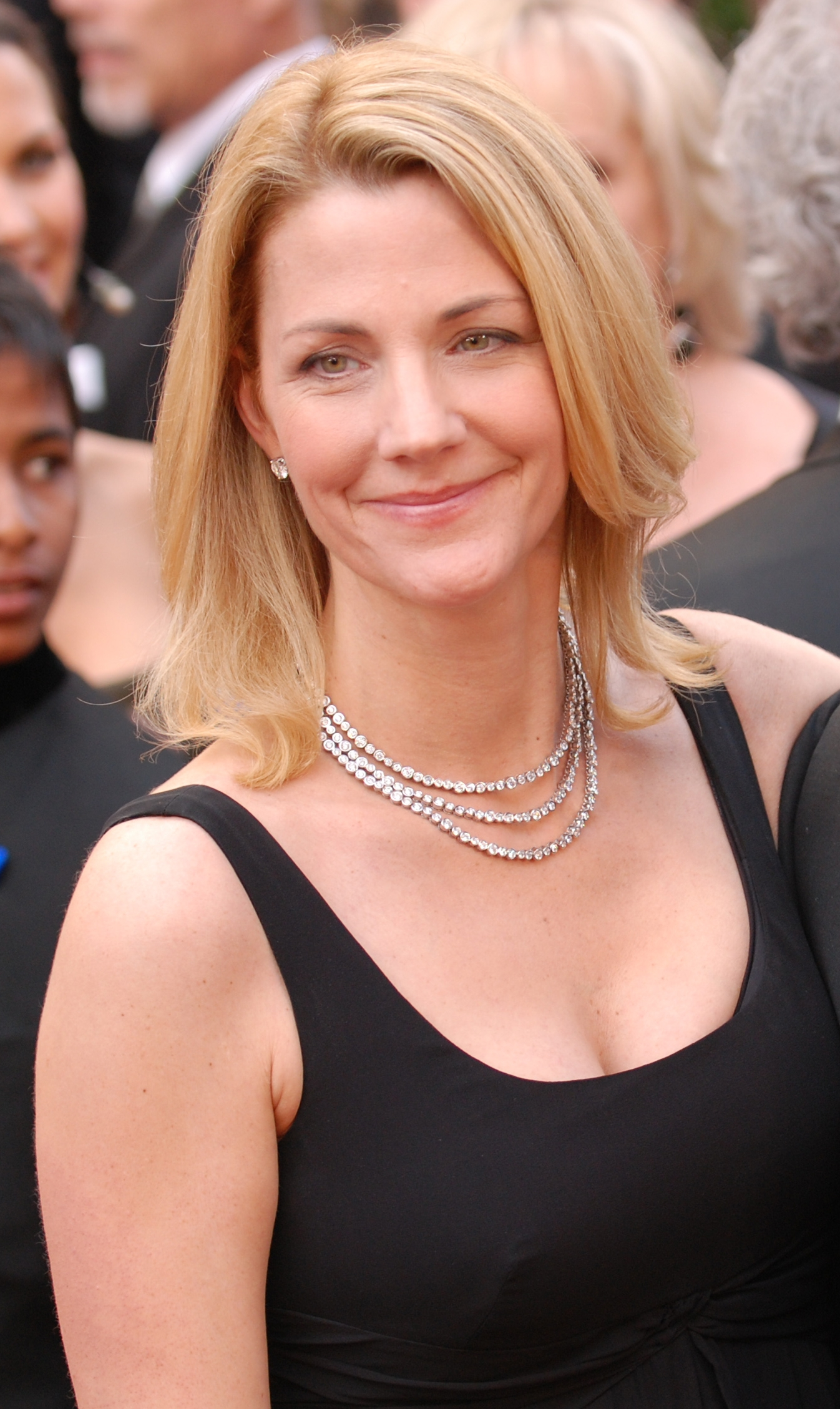 Nancy Walls in the 82nd Academy Awards, March 7, in Hollywood, Calif.